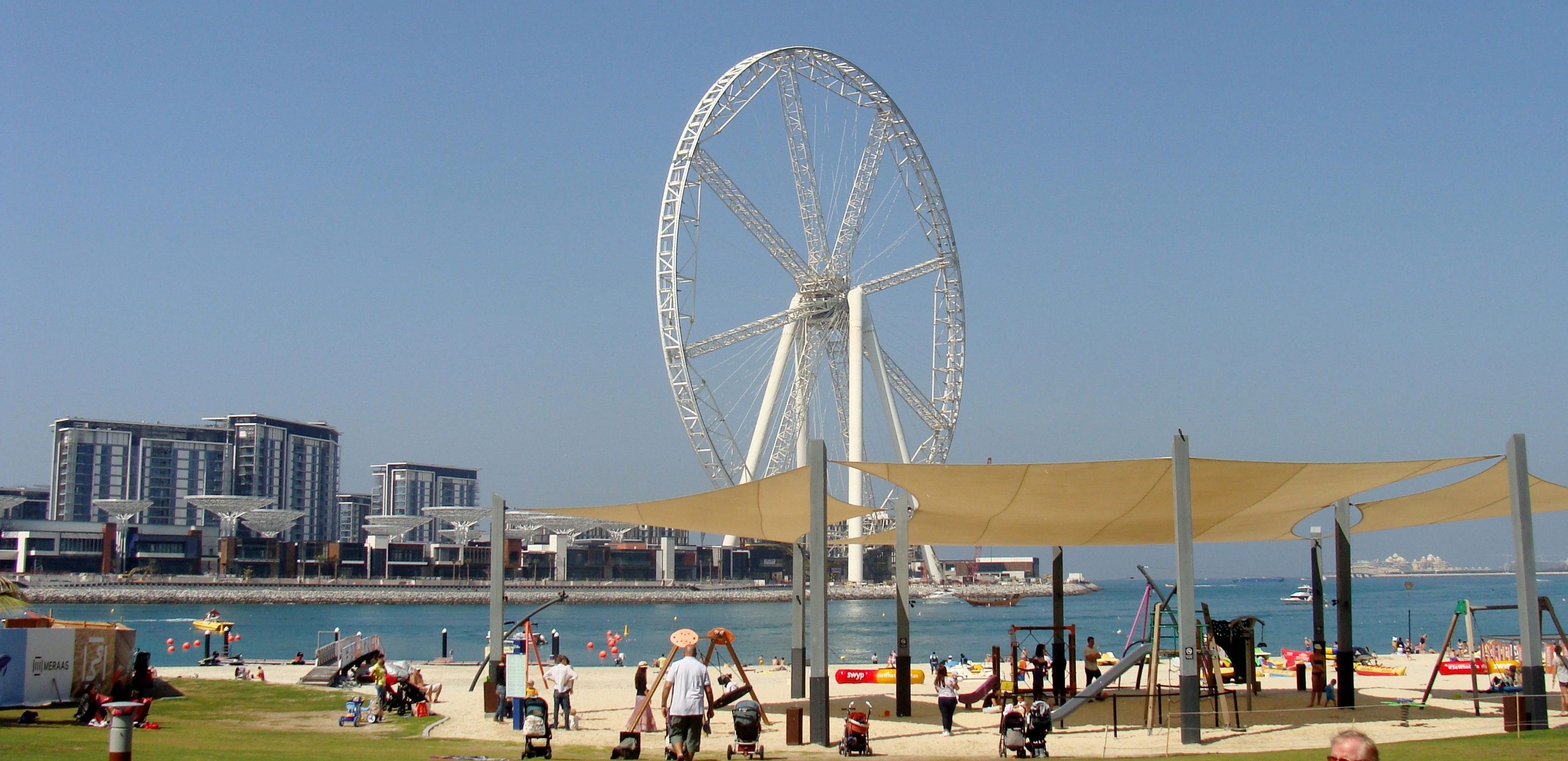 Ain Dubai ferris wheel in Dubai